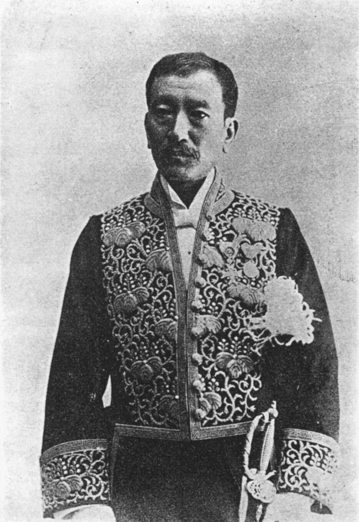 Mr. Hajime Nakagawa, director of the Second Higher School.